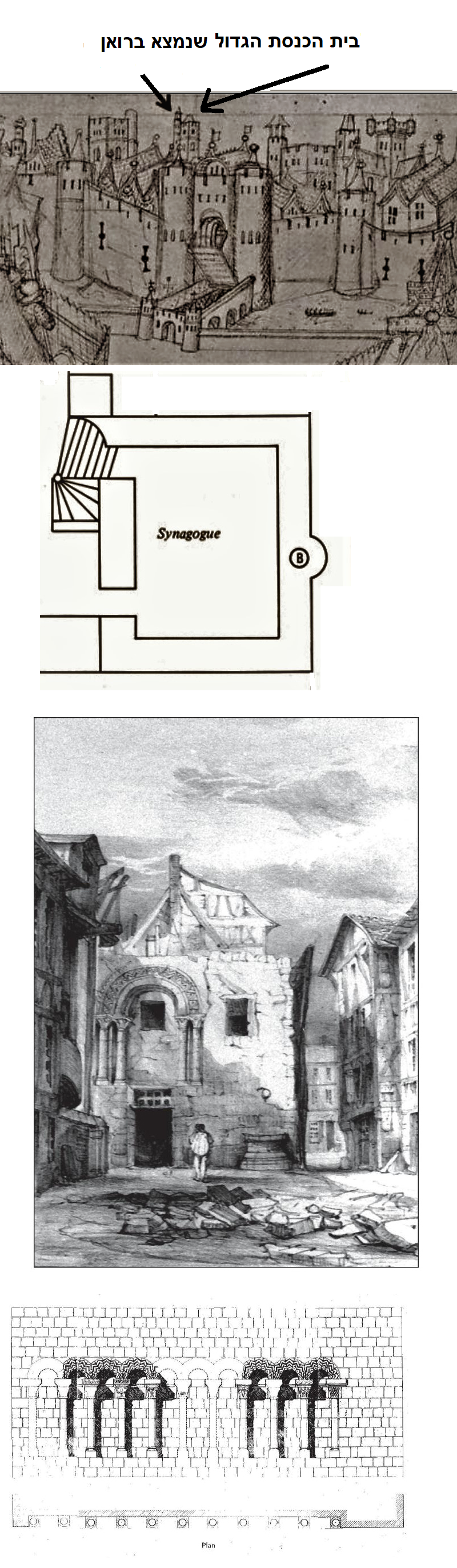 בית הכנסת בגטו רואן שבצרפת